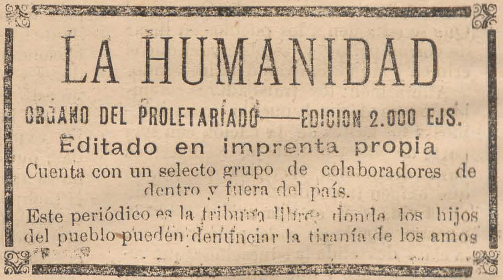 Aviso Imprenta